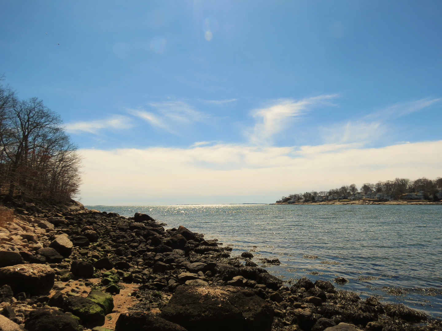 Looking southwest from the shore of Rock Neck State Park towards Long Island Sound.